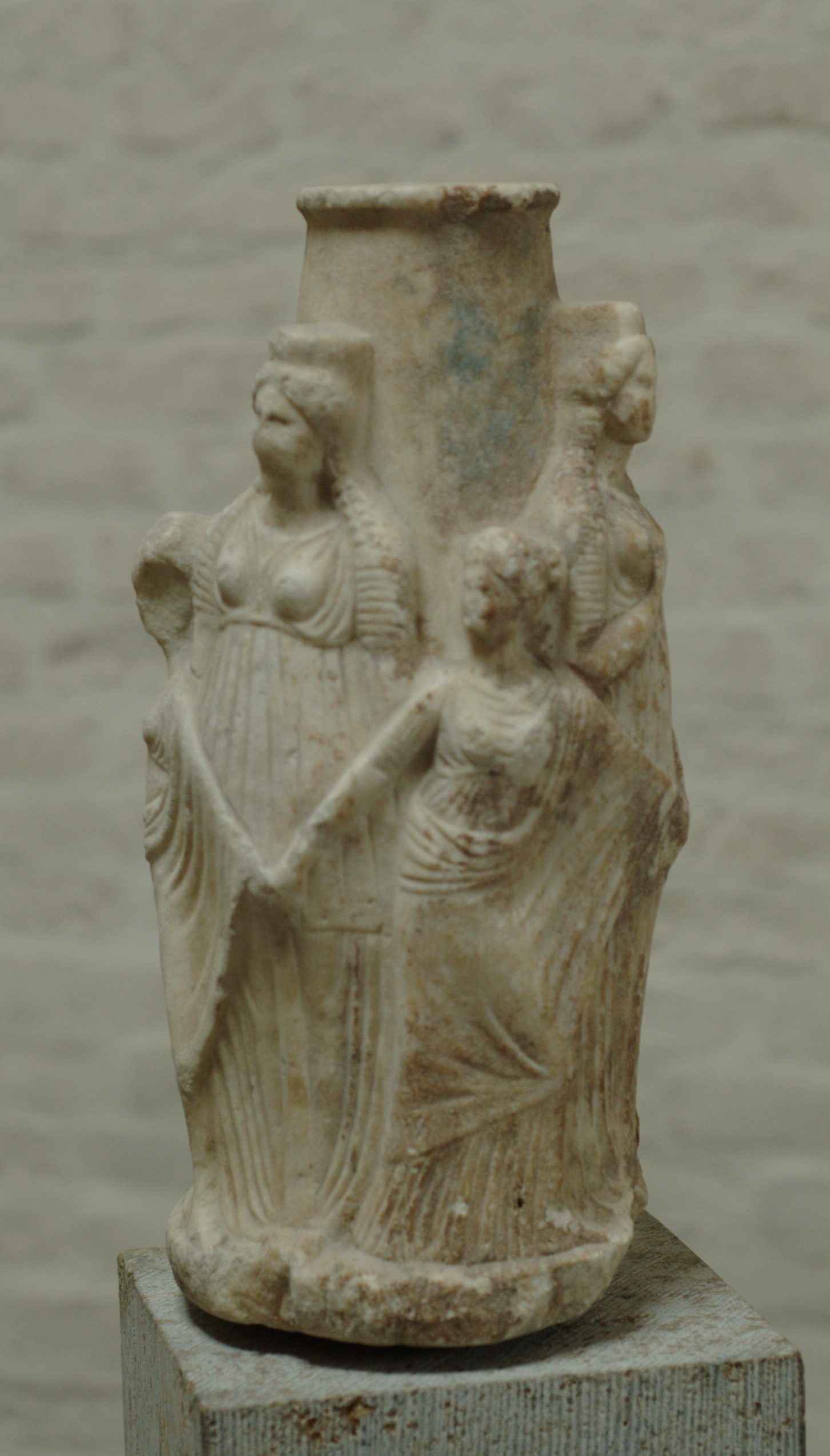 Hekateion (little votive column to Hecate). The triple-body goddess is surrounded by three dancing Charites. Attica, ca. 3rd century BC.